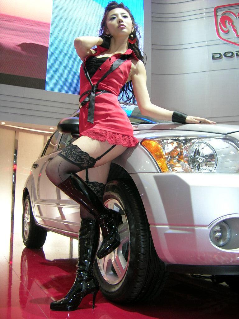 2007 Auto Show in the KINTEX, Ilsan, ROK